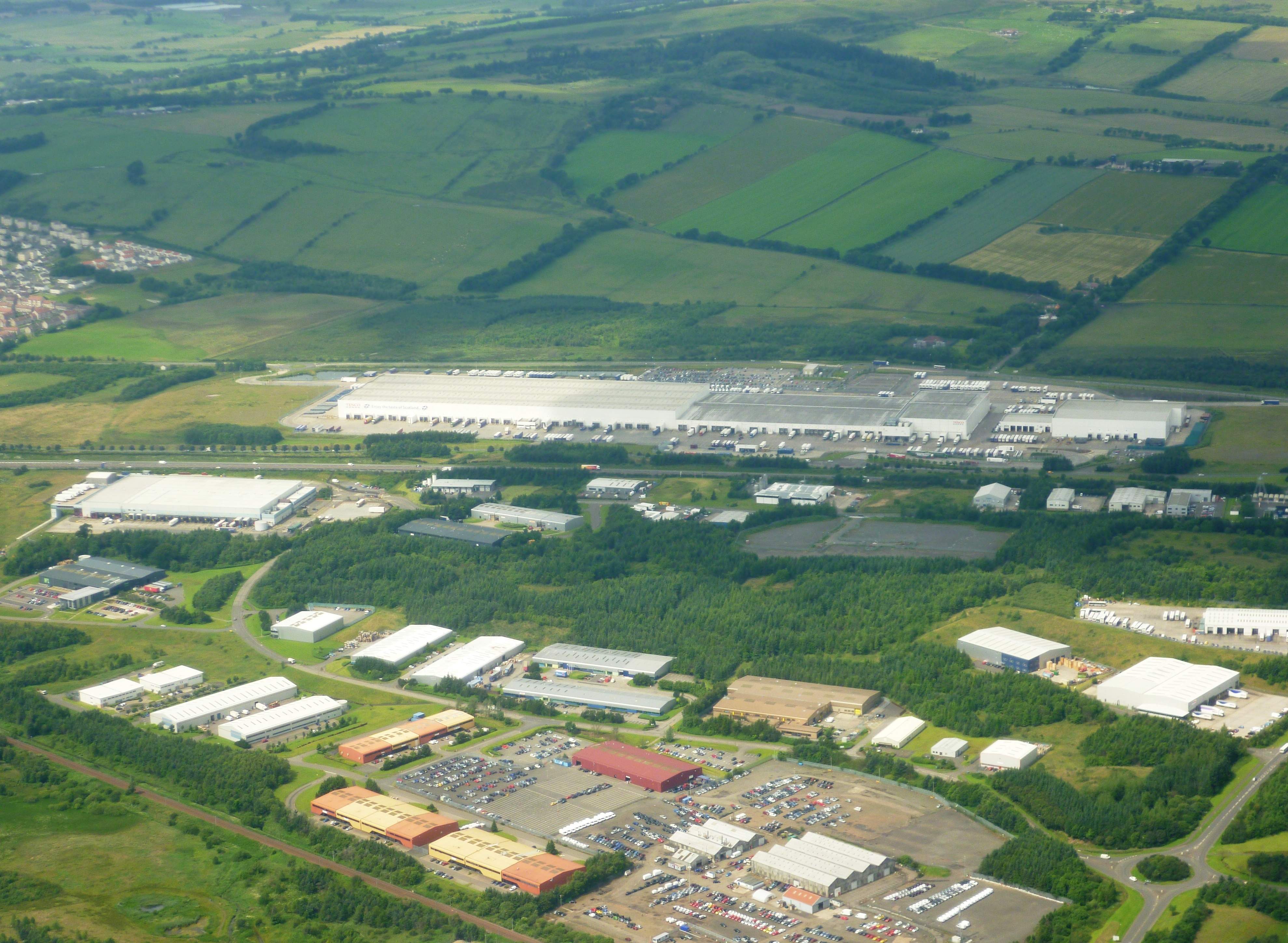 Tesco's Distribution Centre in Livingston (the long white building) opened in 2007, supplying all the company's stores in Scotland and Northern Ireland. It covers an area of one million square feet. The road haulage company Stobart transports goods from the centre to the Grangemouth rail terminal, whence they are sent on by rail to Inverness for distribution throughout the north of Scotland.